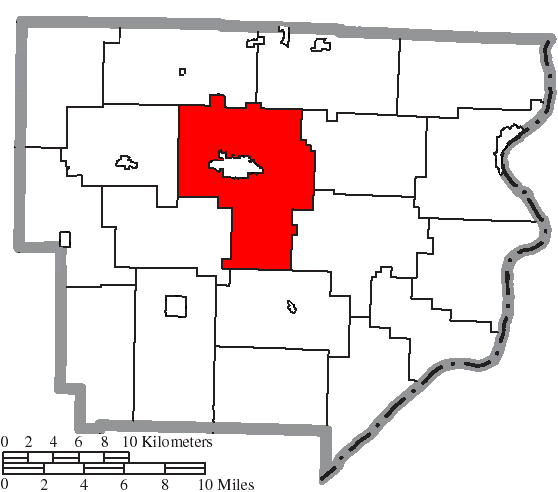 Map of the municipal and township boundaries of Monroe County, Ohio, United States, as of the 2000 census, with the location of Center Township highlighted. Township borders are shown only in unincorporated areas in order to differentiate incorporated and unincorporated areas more clearly.